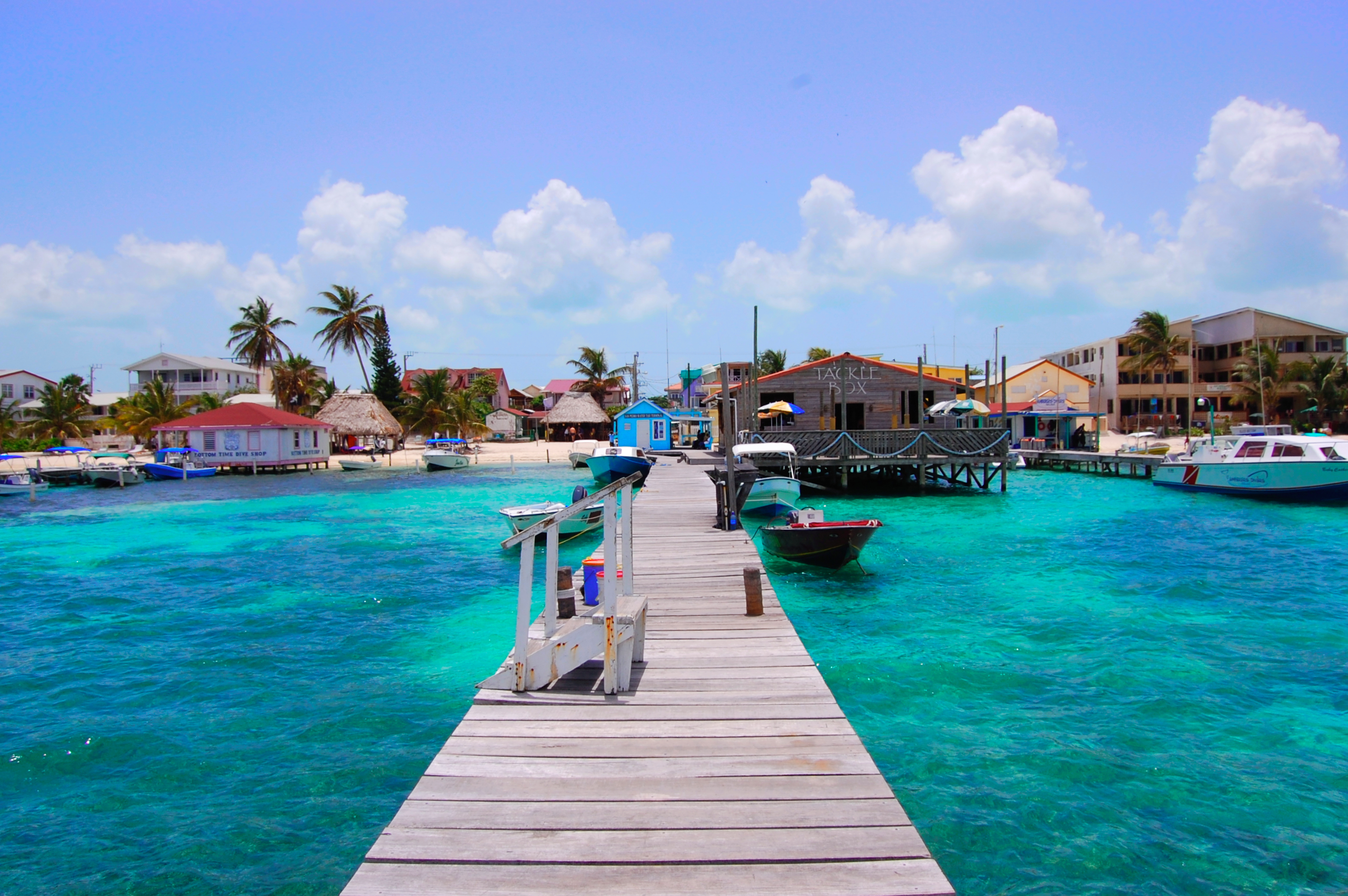 San Pedro Beach in Ambergris Caye, Belize. Photographed by Adam Reeder in June 2007.